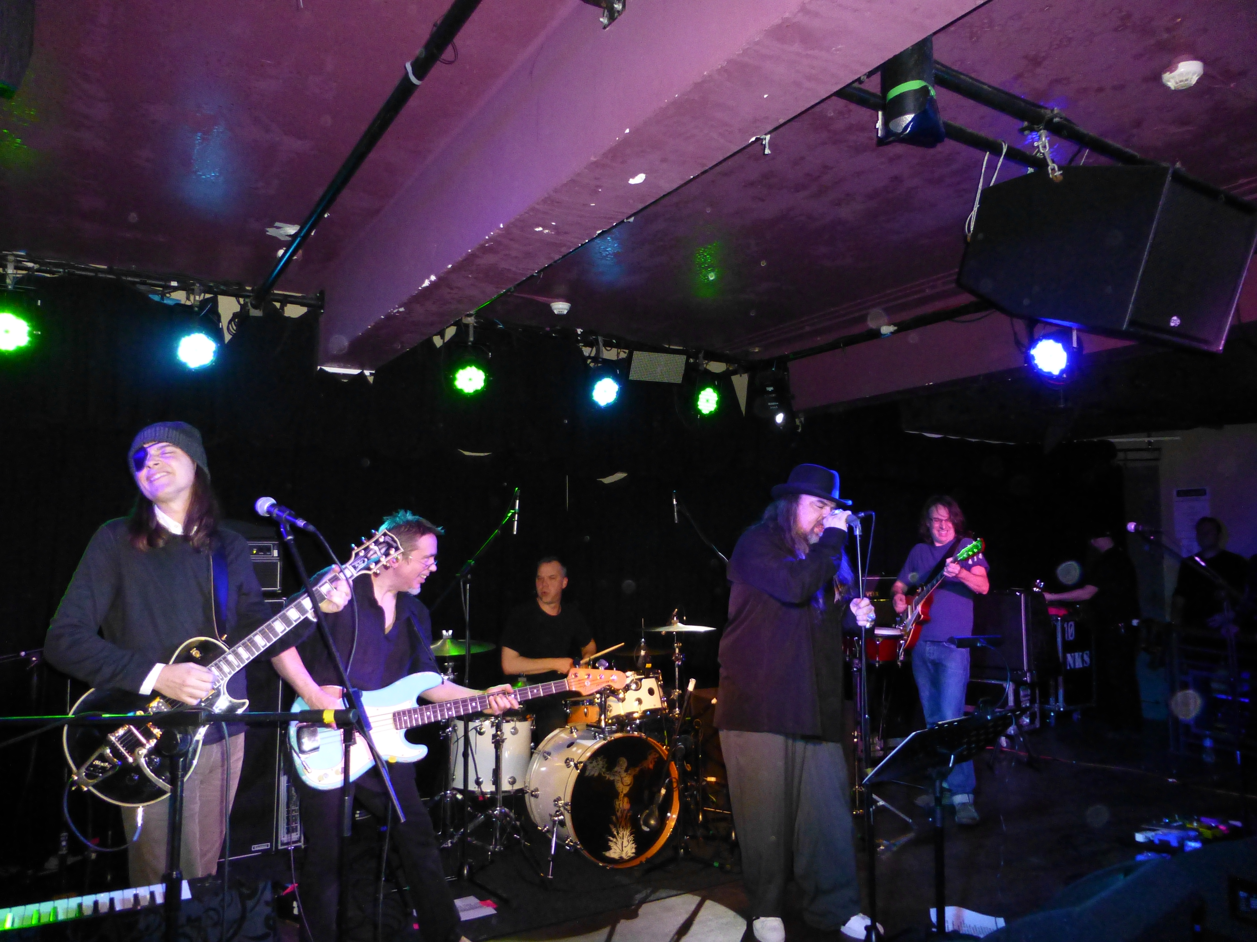 American band Brad playing on their opening date of their European tour in Manchester, England on 8th Feb 2013.